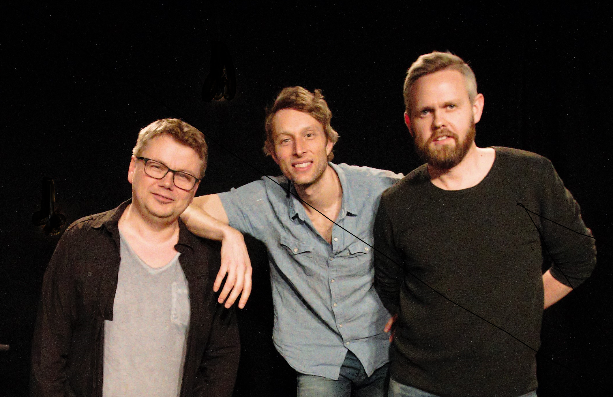 Månevenn, artist, band from Jolster in the western part of Norway